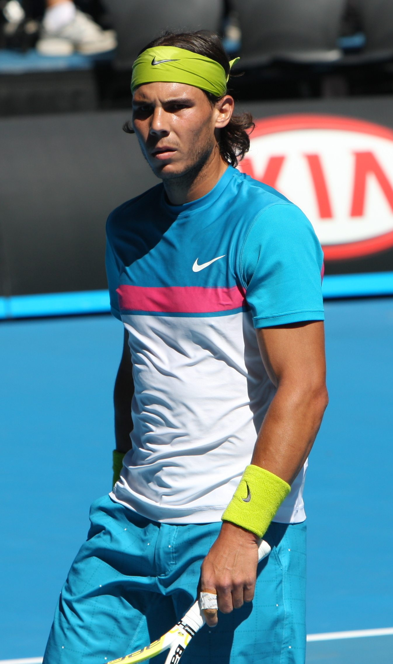 Rafael Nadal at 2009 Australian Open, Melbourne, Australia.